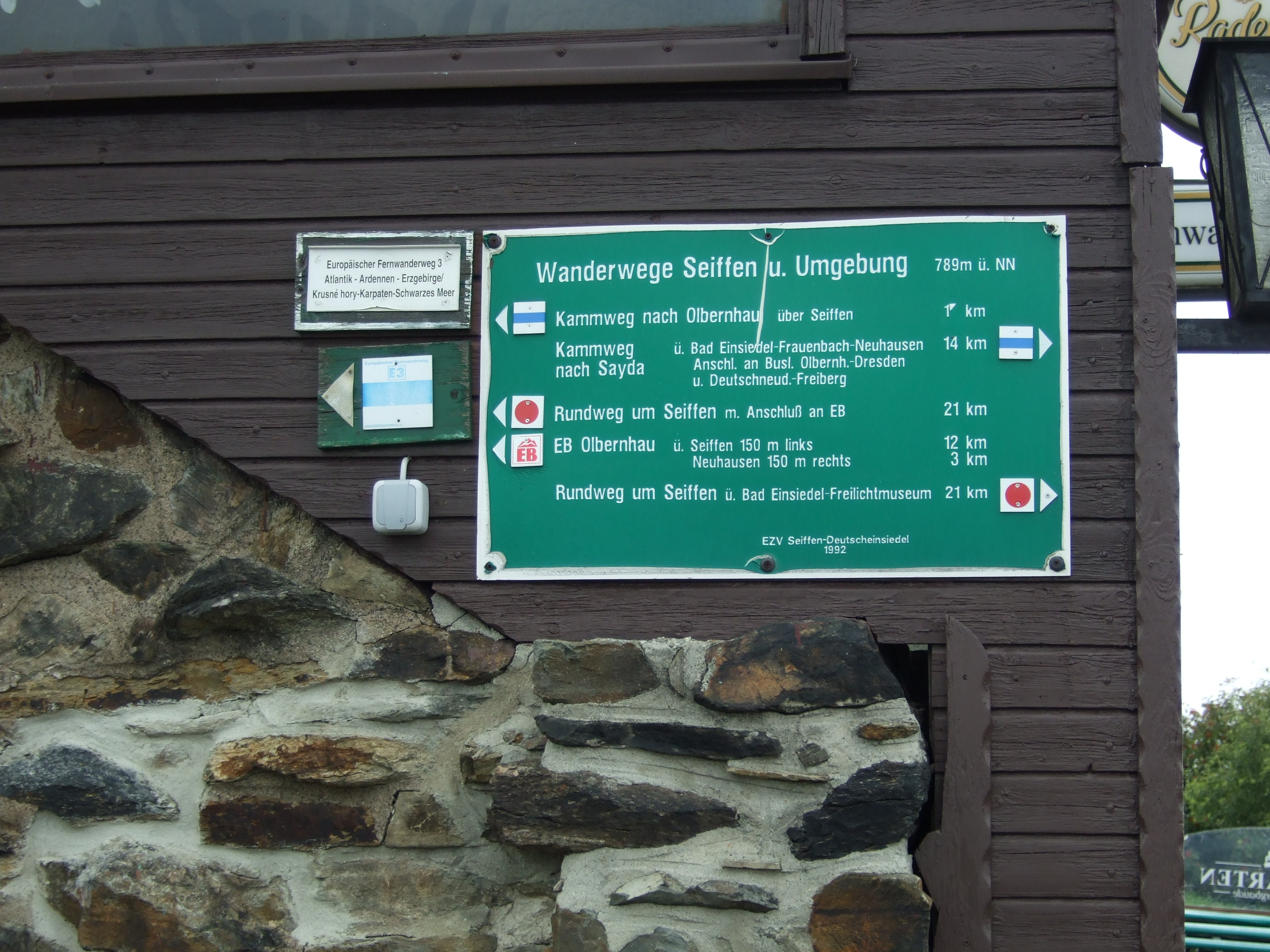 Information board at Schwartenberg, Germany (Saxony) of (long distance) hiking trails with symbols of the ways, elevation, operator and distances. Information board show: Long distance hiking trail E3, Long distance hiking trail EB, regional hiking trail KAMMweg, local round trip trail around Seiffen.